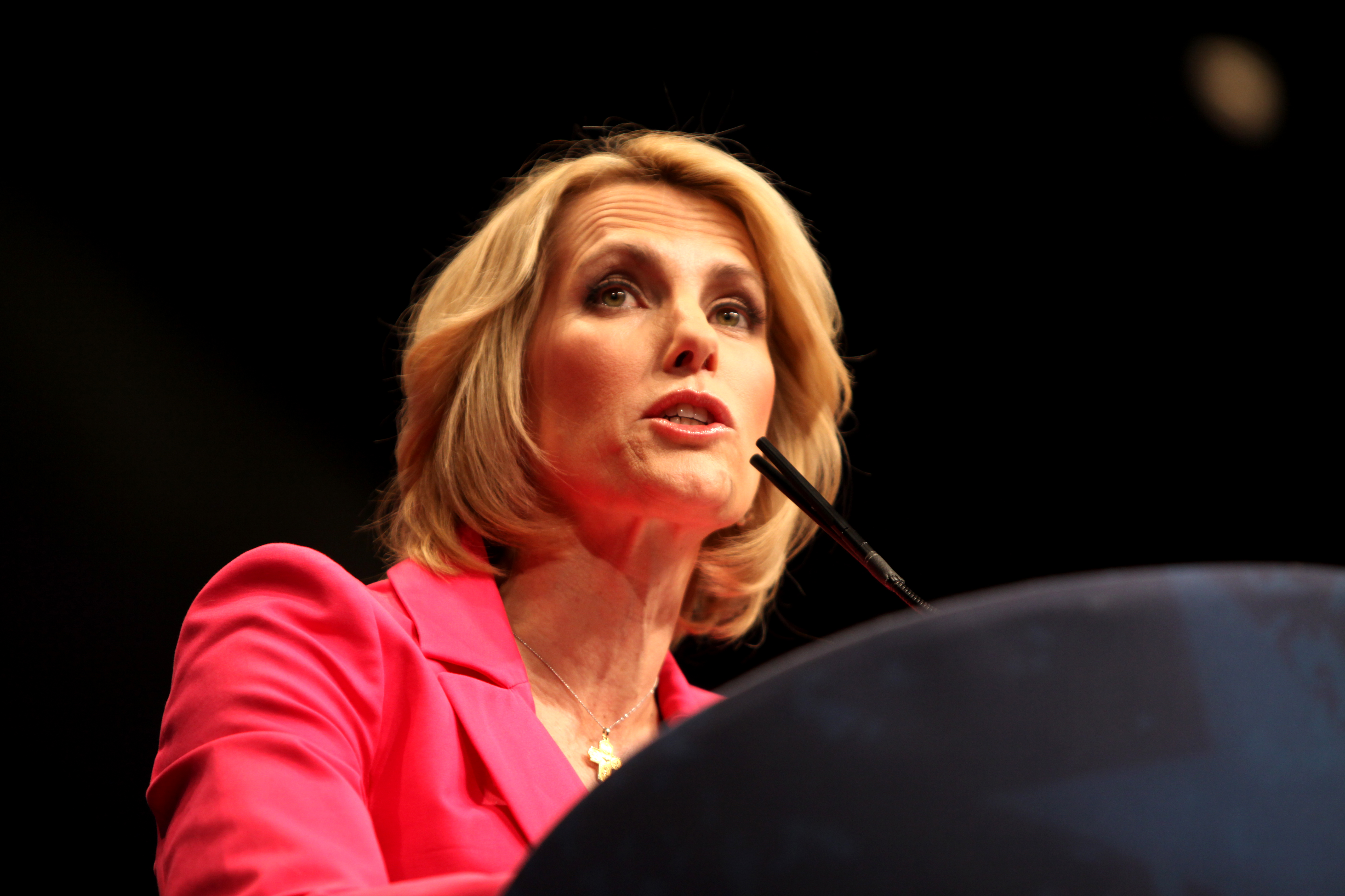 Laura Ingraham in CPAC 2012